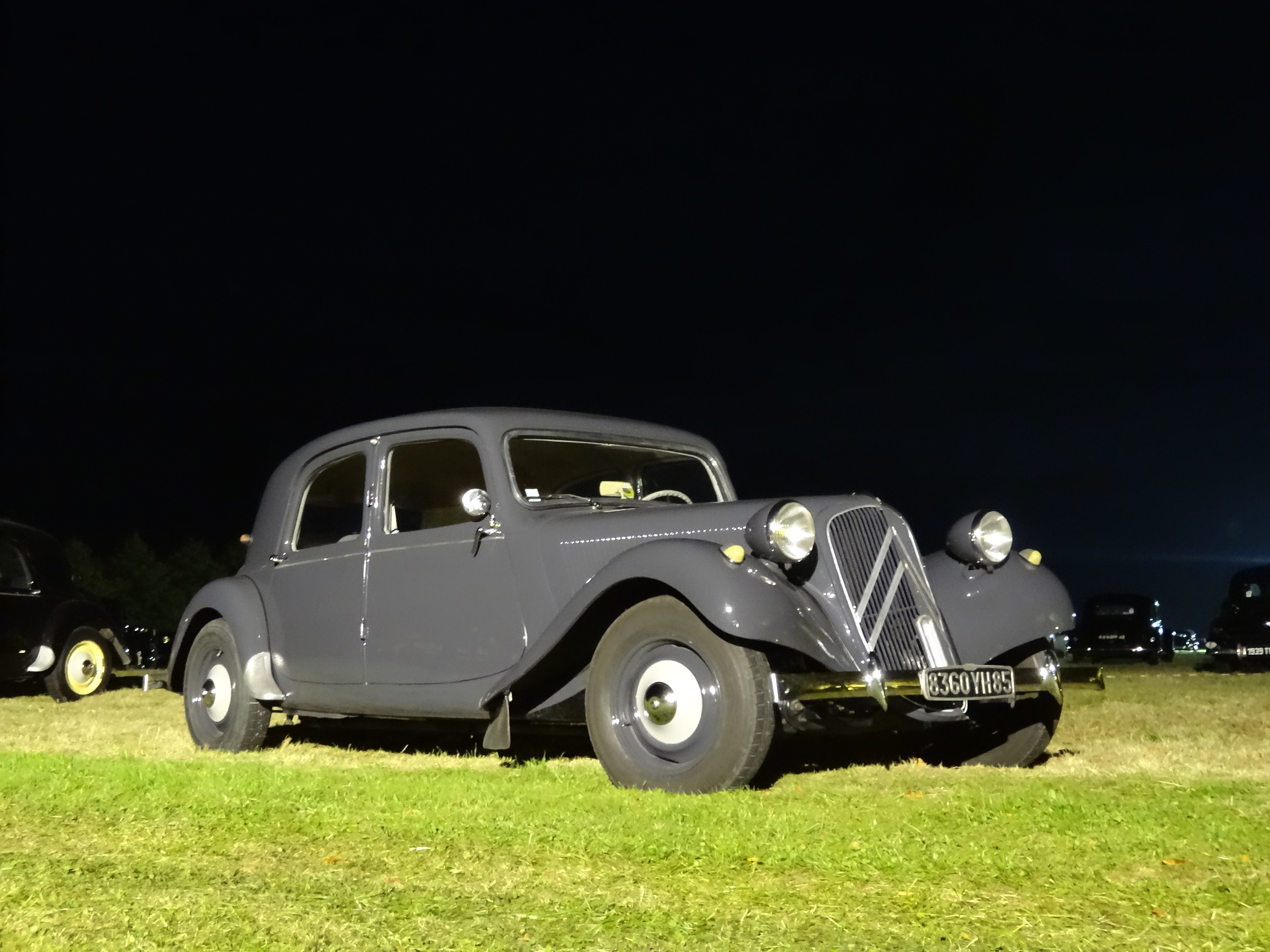 80 Jahre Citroen Traction Avant 2014 La Ferte-Vidame